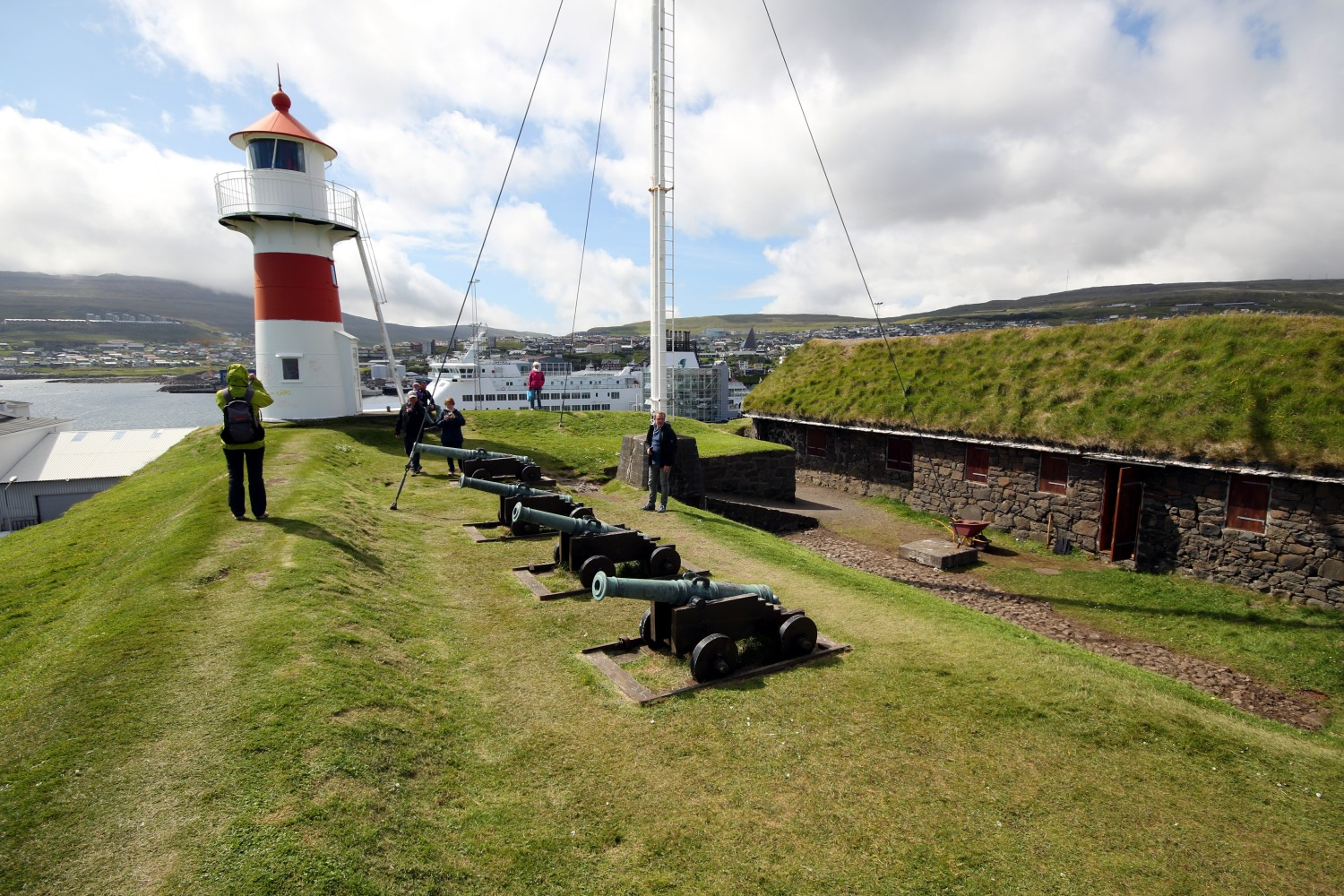 Alte Festung Skansen in Tórshavn, Färöer